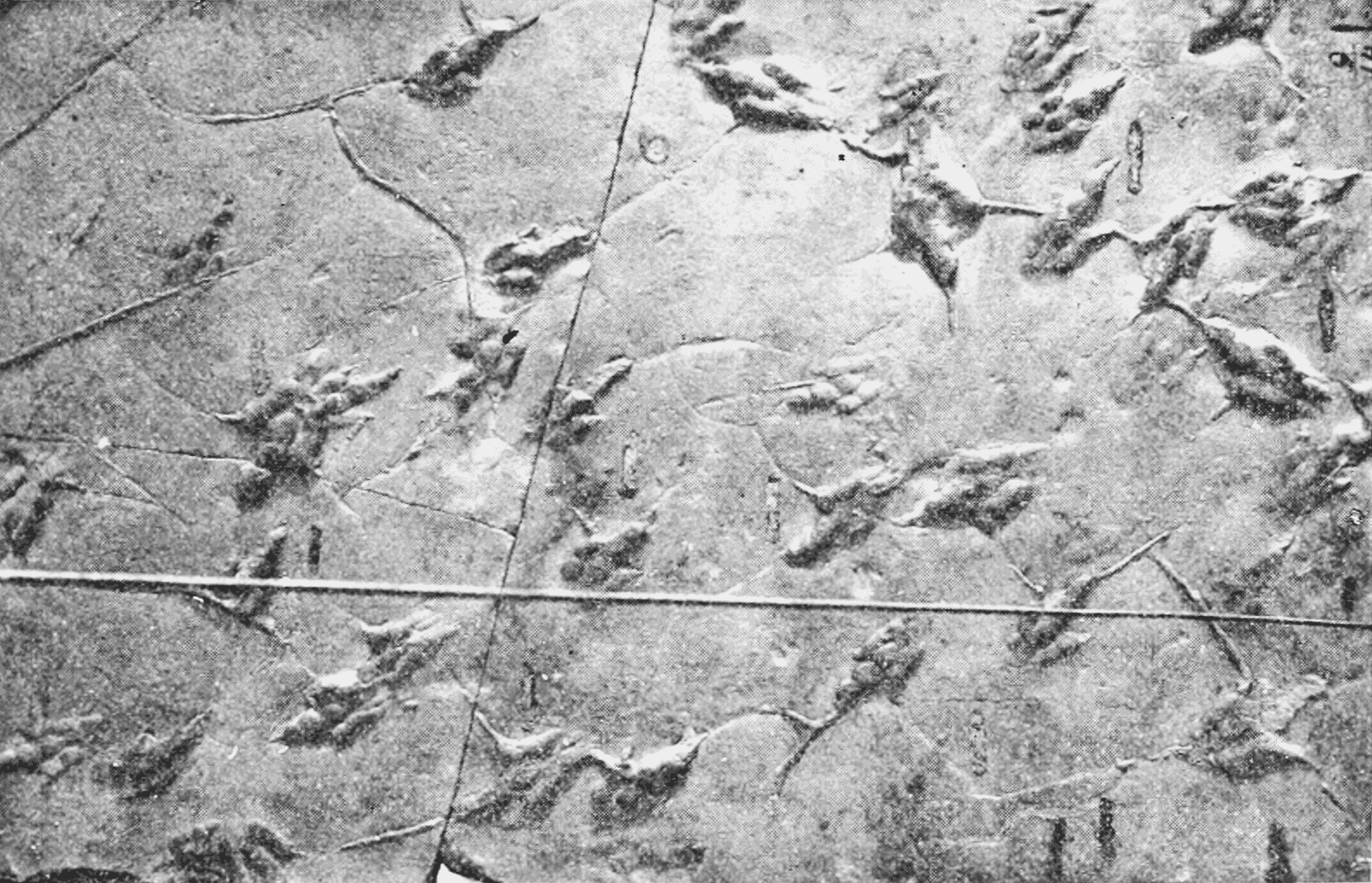 Original figure caption: The Middletown Slab covered with the Footprints of Carnivorous Dinosaurs. The tracks are in high relief. Additional notes: Most if not all of these tridactylous (i.e. three-toed) footprints/tracks (but not the actual trackmaker!) are referred to as Grallator or as Grallator-type trace fossils. “High relief” means that these are actually casts of footprints forming a positive relief on the lower surface of the sandstone slab (so-called positive hyporelief). The material that originally formed the mud over which the dinosaurs walked was too friable to be recovered from the quarry in one piece. The slab consists of so called ‘brownstone’ which is the trading name of the sandstone quarried at Middletown, Connecticut. This sandstone belongs to the Lower Jurassic Portland Formation of the Hartford Basin (“Connecticut Valley”) and thus to the upper part of the Newark Supergroup. The trackmakers probably were relatively small ‘primitive’ theropod dinosaurs (coelophysoids) such as Podokesaurus the remains of which were recovered from Lower Jurassic deposits of the Hartford Basin.